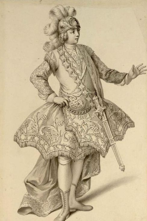 Antigono by Johann Adolph Hasse (staged at Dresden Court Theatre 1744) Costume designs by Francesco Ponte (b. 1725) - Alessandro (sung by Francesco Venturini) fig. 4 of 9 (+title page)